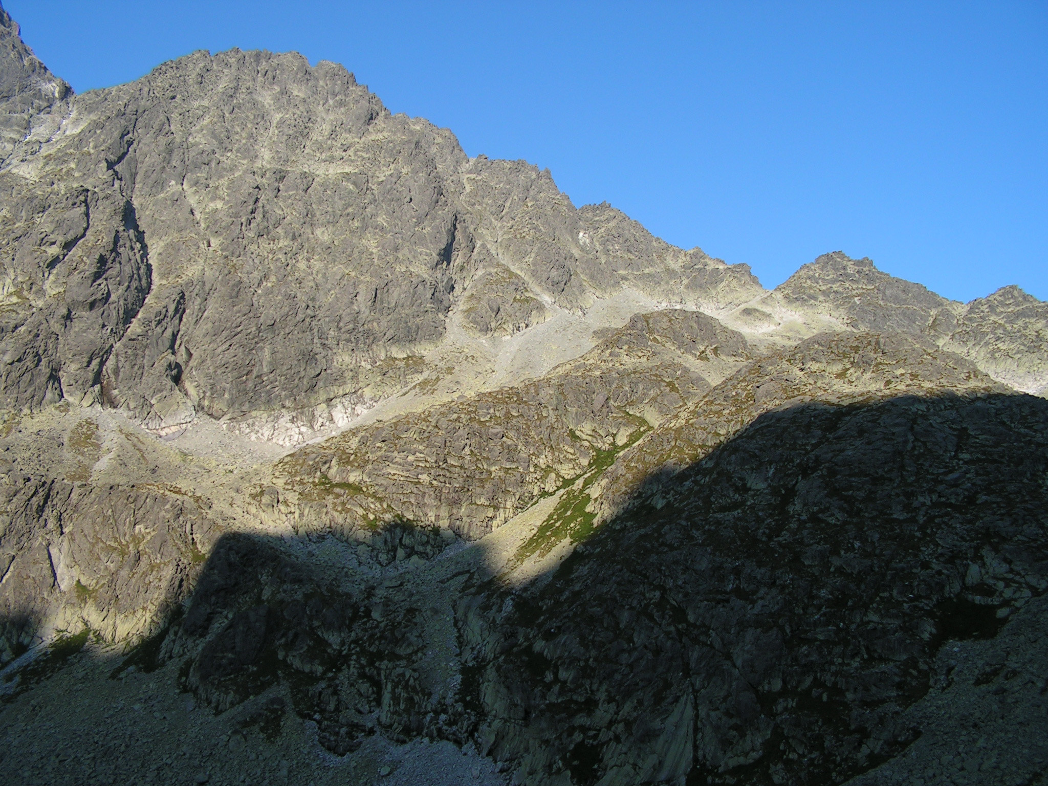 Zadný Gerlach, Litvorové sedlo and Litvorový štít